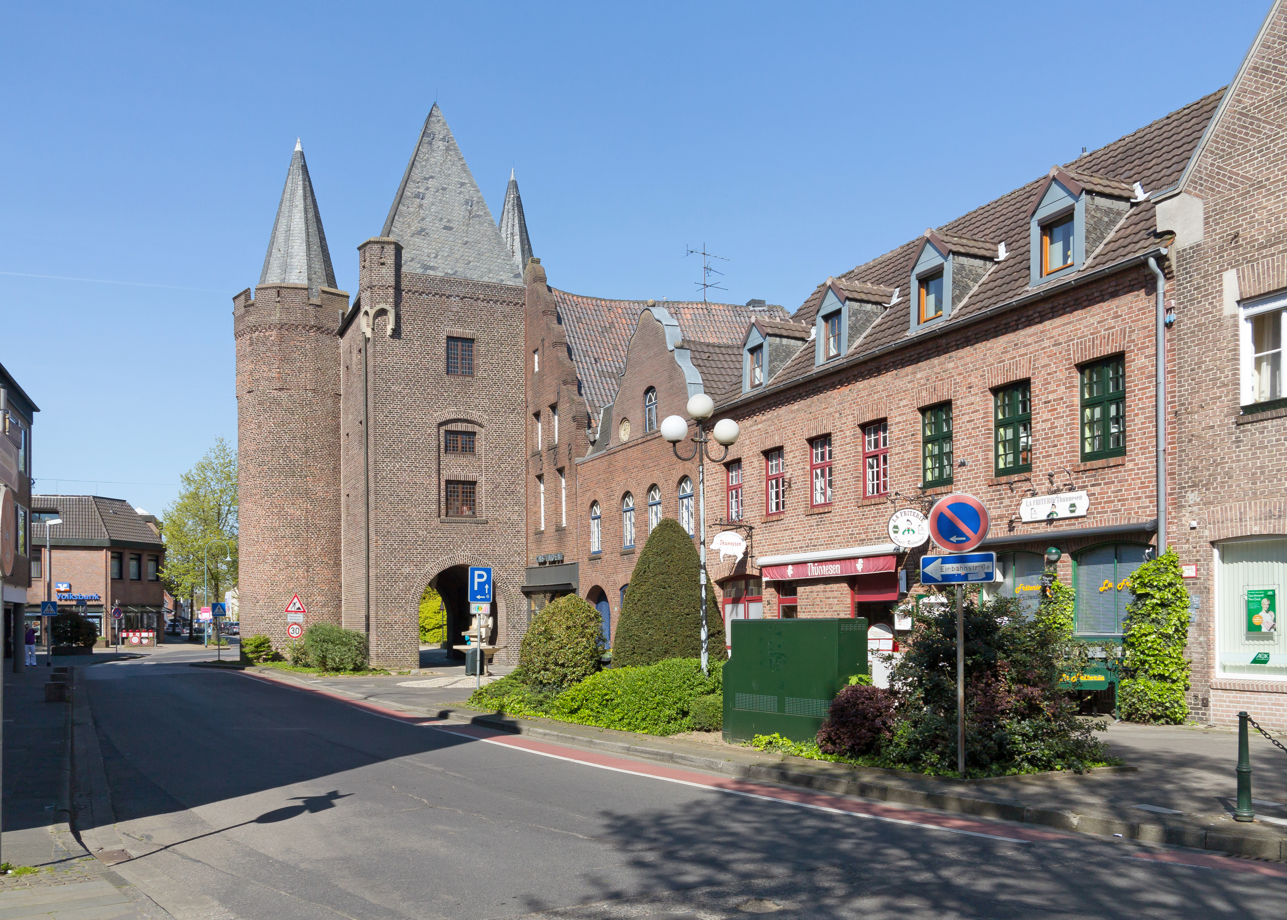 Goch, view to a street - Am SteintorThis is a photograph of an architectural monument., no. 6